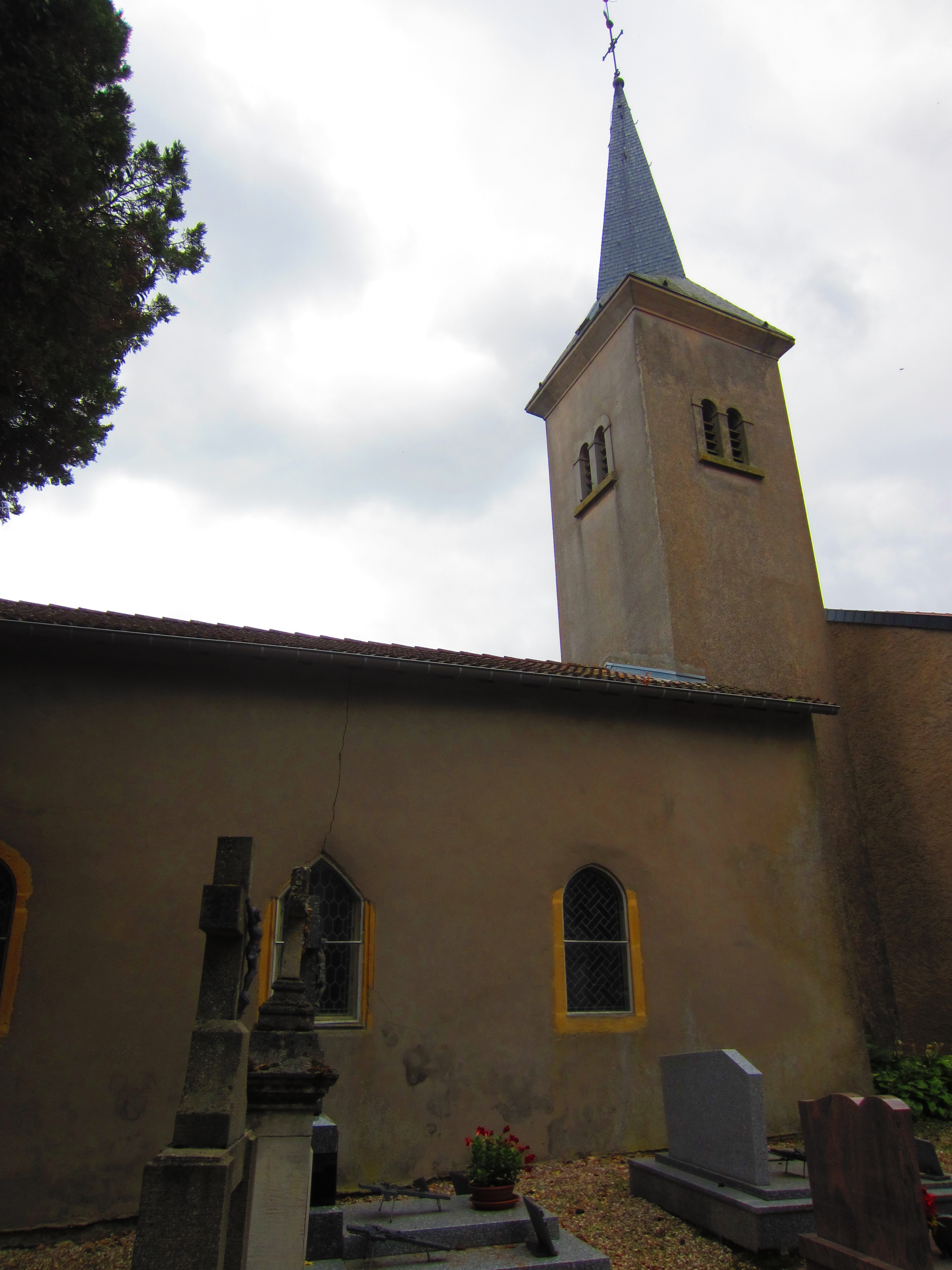 Berlize chapel